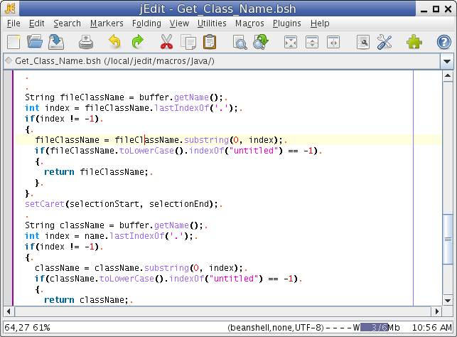 jEdit 4.3 under Fedora.